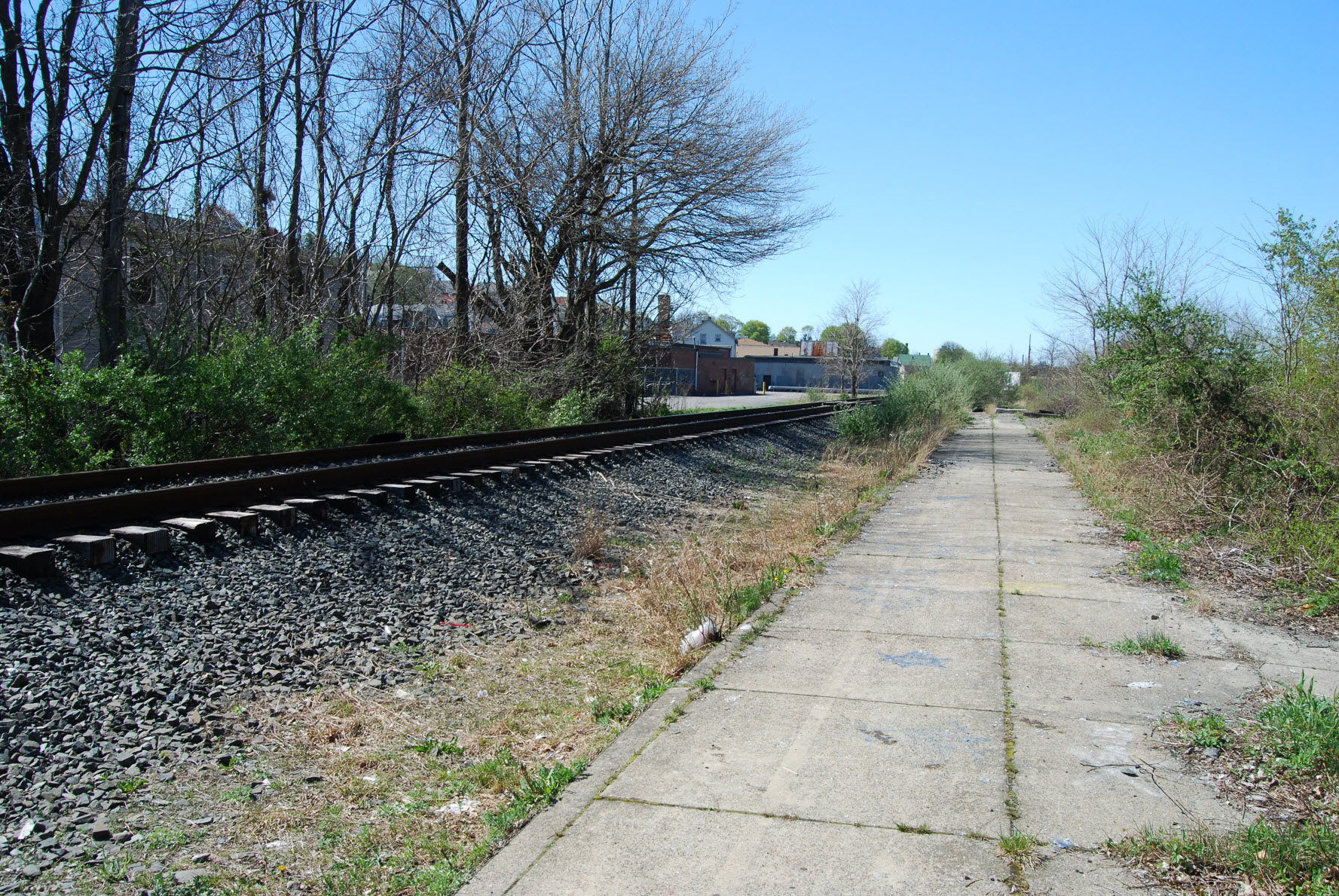 Former location of the Old Colony (later NYNH&H) depot near Pierce Street in Fall River, Massachusetts. This is the proposed site of Fall River Depot under the South Coast Rail project.